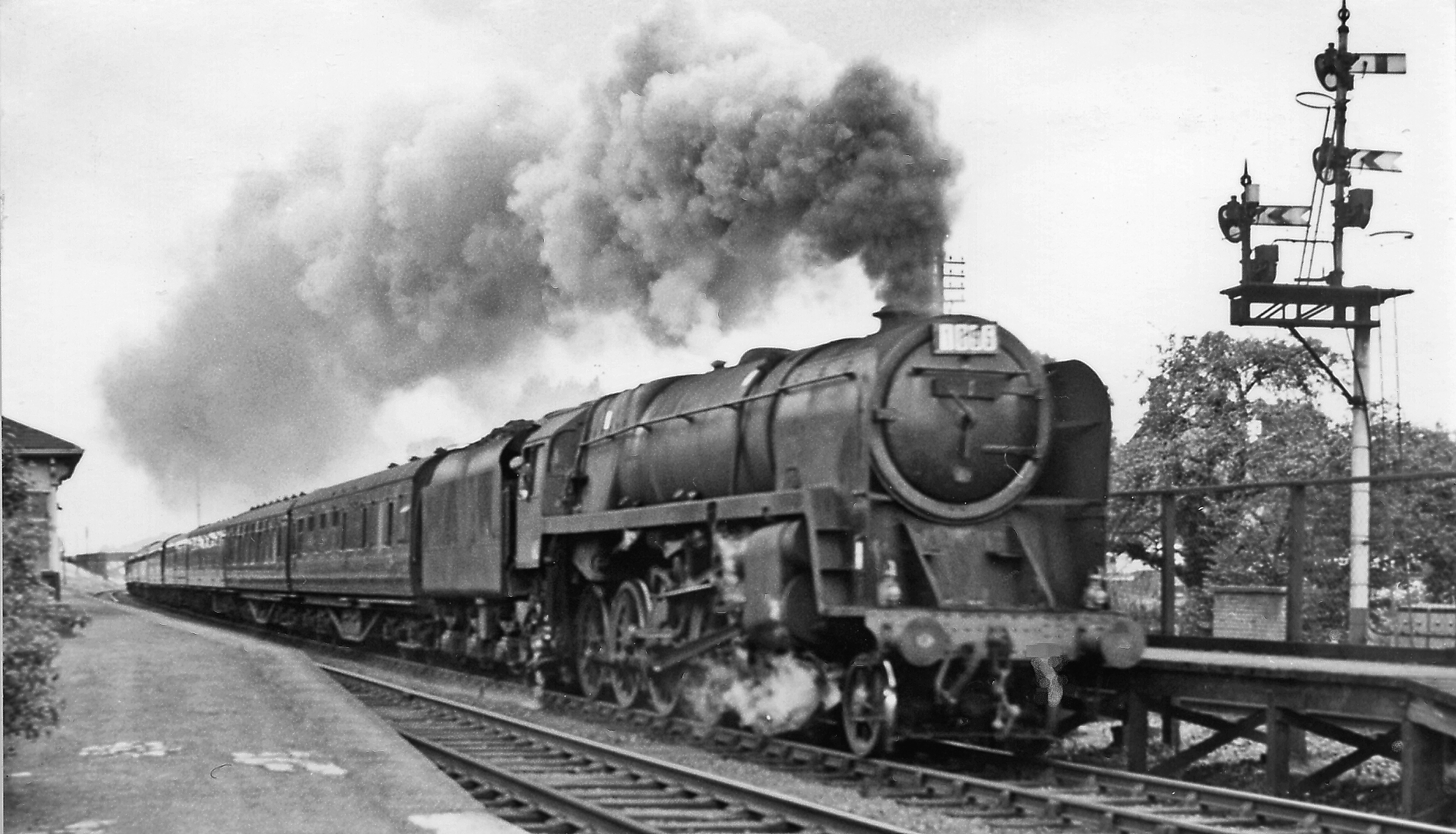 Down 'Pines Express' passing Haresfield station. View northward, towards Gloucester and the North on the ex-Midland Birmingham - Bristol main line, with the ex-GW main line passing on the right - eschewing the station: the signals for the - Up - GW line seen at Danger include the Distants for Standish Junction Box. This was in the penultimate year for this famous expressive to run via Bath (Green Park) over the S&D route from Manchester (London Road, then Piccadilly) dep. 10.15/10.20(Sat.), via Crewe and Birmingham New Street, due at Bournemouth West 17.32/18.10 (Sat.). This was also in the brief period when the BR 9F 2-10-0s famously found a new use on express passenger work, here No. 92151 (built 11/57, withdrawn 4/67). Haresfield station was closed on 4/1/65.